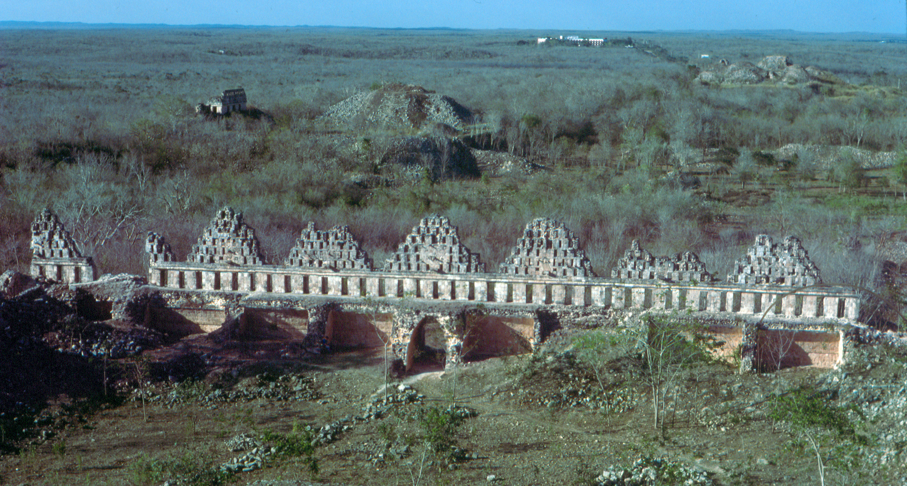 Uxmal, Yucatan, Mexico: House of the Pigeons. left center background: Cementery Group. Further back towards top right: North Group. Center far distance: Hotel.